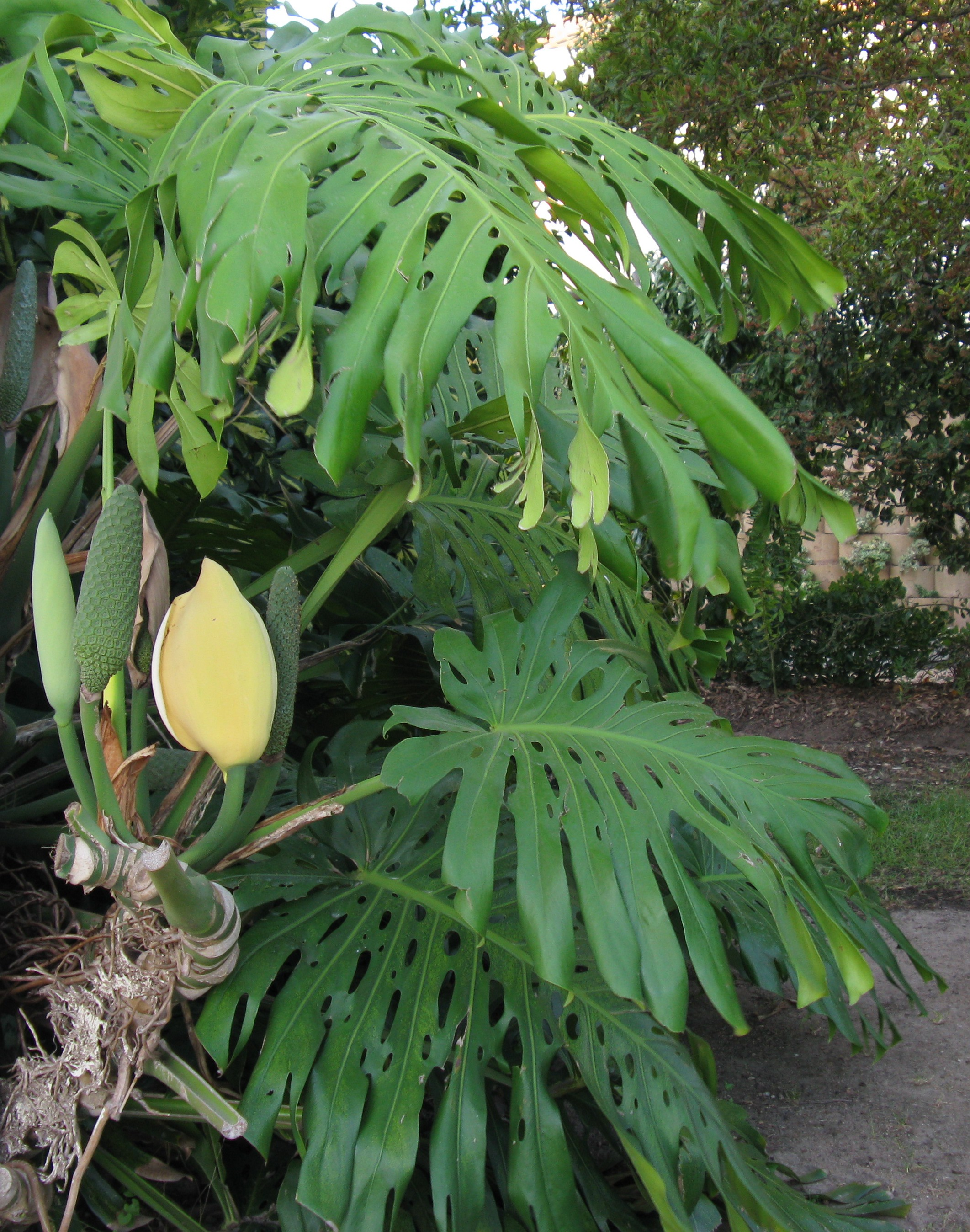 Note the dead cataphyll at the leaf petiole, plus the dead spathe around one spadix